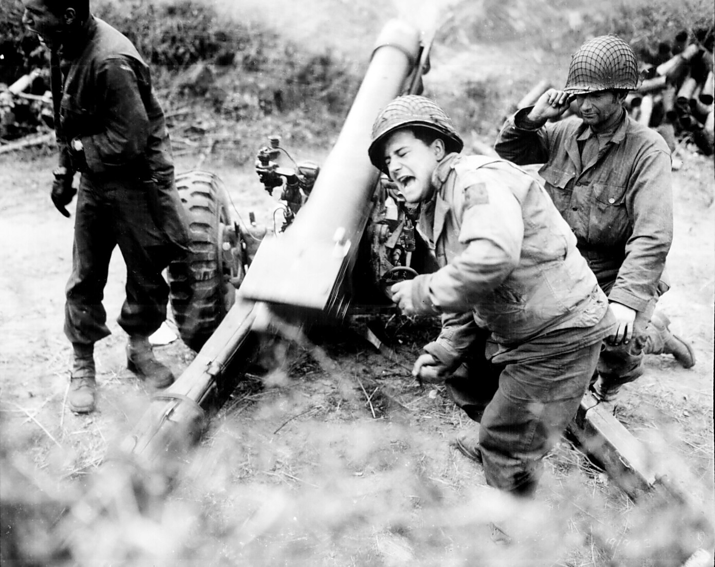 American howitzers shell German forces retreating near Carentan, France. July 11, 1944